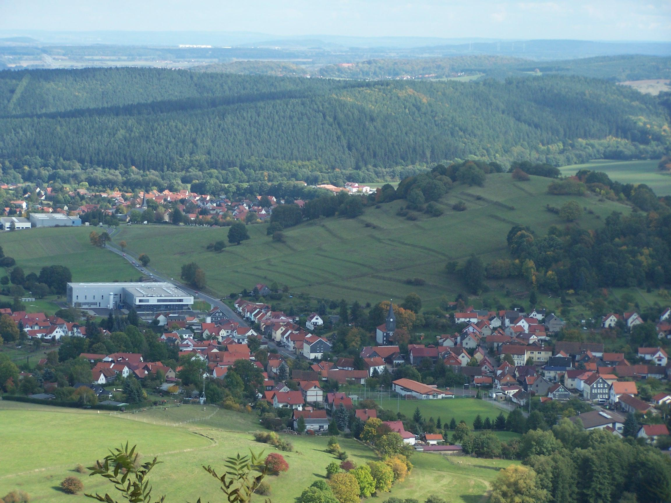 General overview of the Emsetal with Schmerbach and Schwarzhausen.